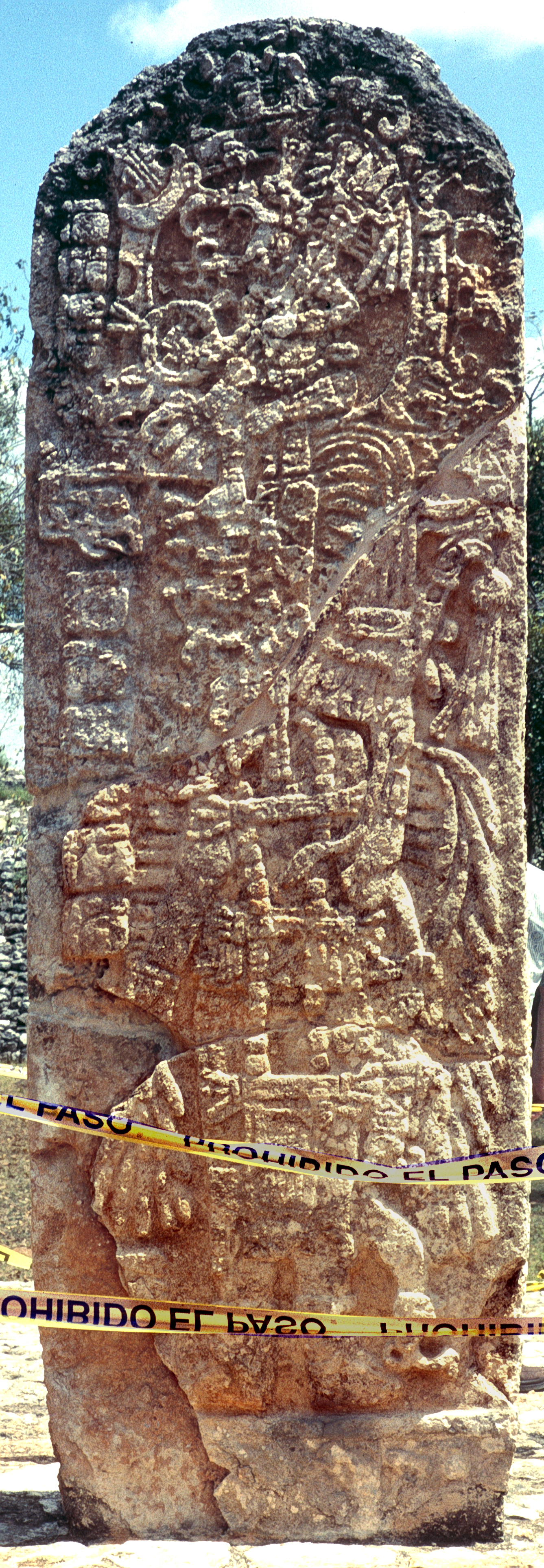 Ek' Balam, Yucatan, Mexico: Stela 1